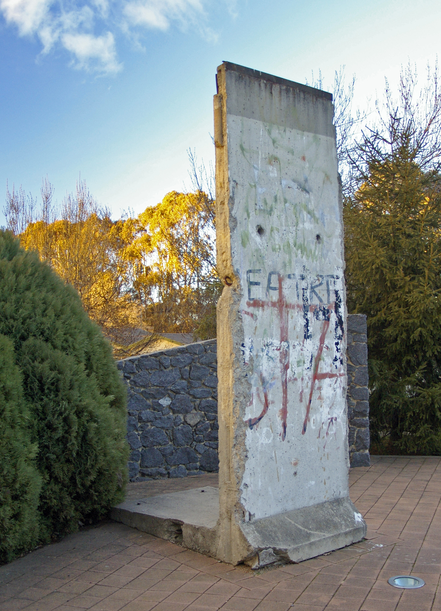 Small section of the Berlin Wall located in the carpark of the Harmonie German Club in the Canberra suburb of Narrabundah, Australian Capital Territory.